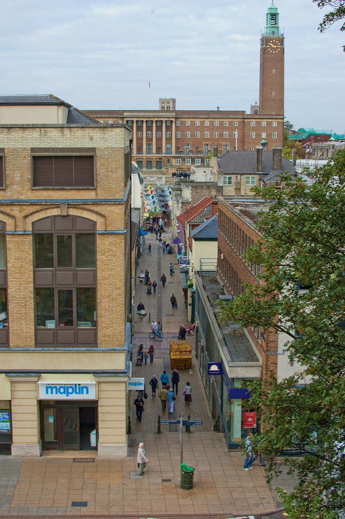 View West from atop Norwich castle mound, Norwich city hall is in the distance. A row of the colorful market stalls may be seen at upper middle centre. The alleyway in centre is known as "Davey place".